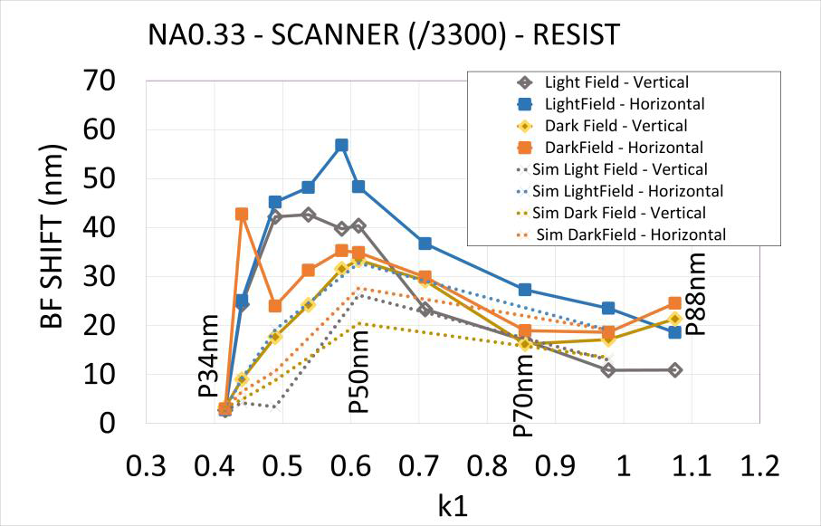 The best focus varies as a strong function of pitch under the same (quasar) illumination (0.33 NA). At 36 nm pitch, horizontal and vertical darkfield features have more than 30 nm difference of focus. The 34 nm pitch and 48 nm pitch features have the largest difference of best focus regardless of feature type.